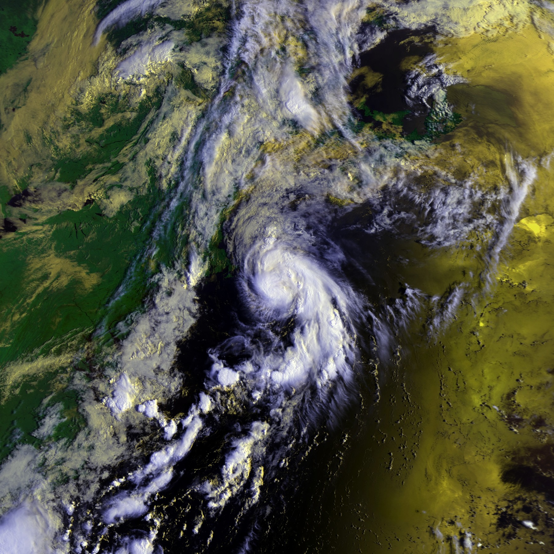 Tropical Storm Alberto on August 7 at approximately 1242 UTC. This image was produced from data from NOAA-10, provided by NOAA.